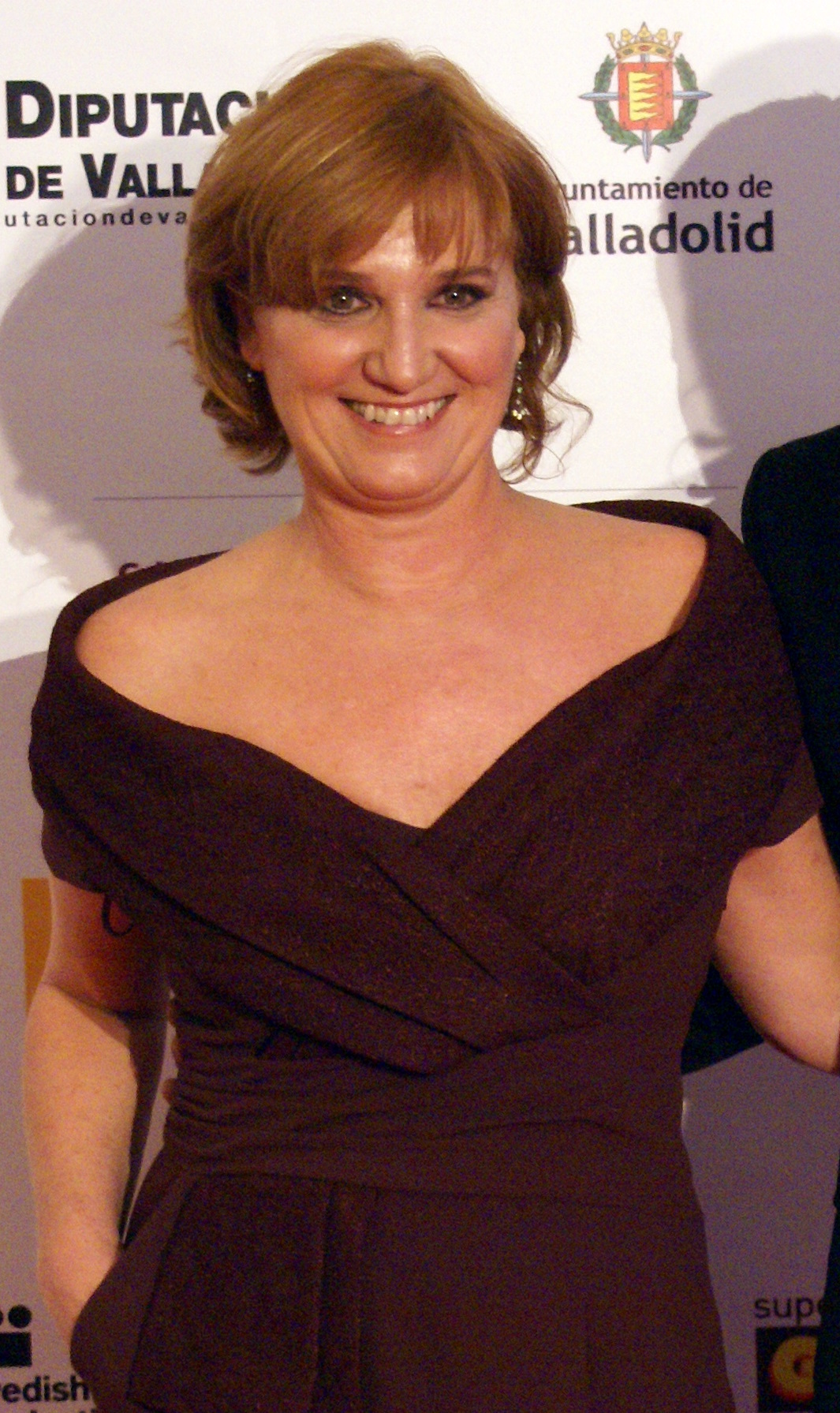 Ana Wagener, Spanish actress, at the Seminci 2011.